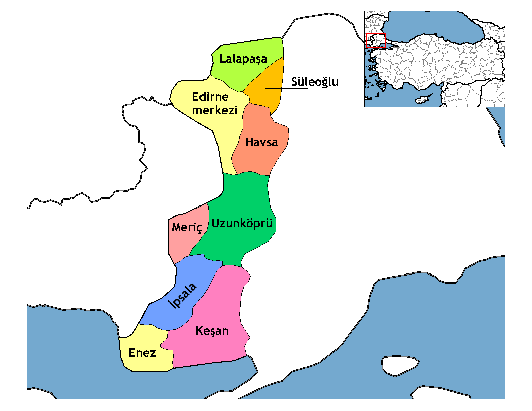 Map of the districts of Edirne province in Turkey. Created by Rarelibra 19:52, 1 December 2006 (UTC) for public domain use, using MapInfo Professional v8.5 and various mapping resources. Edited by One Homo Sapiens Corrected text where İ,Ş,ı,ğ,or ş occurs in name. Source: [statoids-com]. Increased font size and enhanced color differences among adjacent districts.